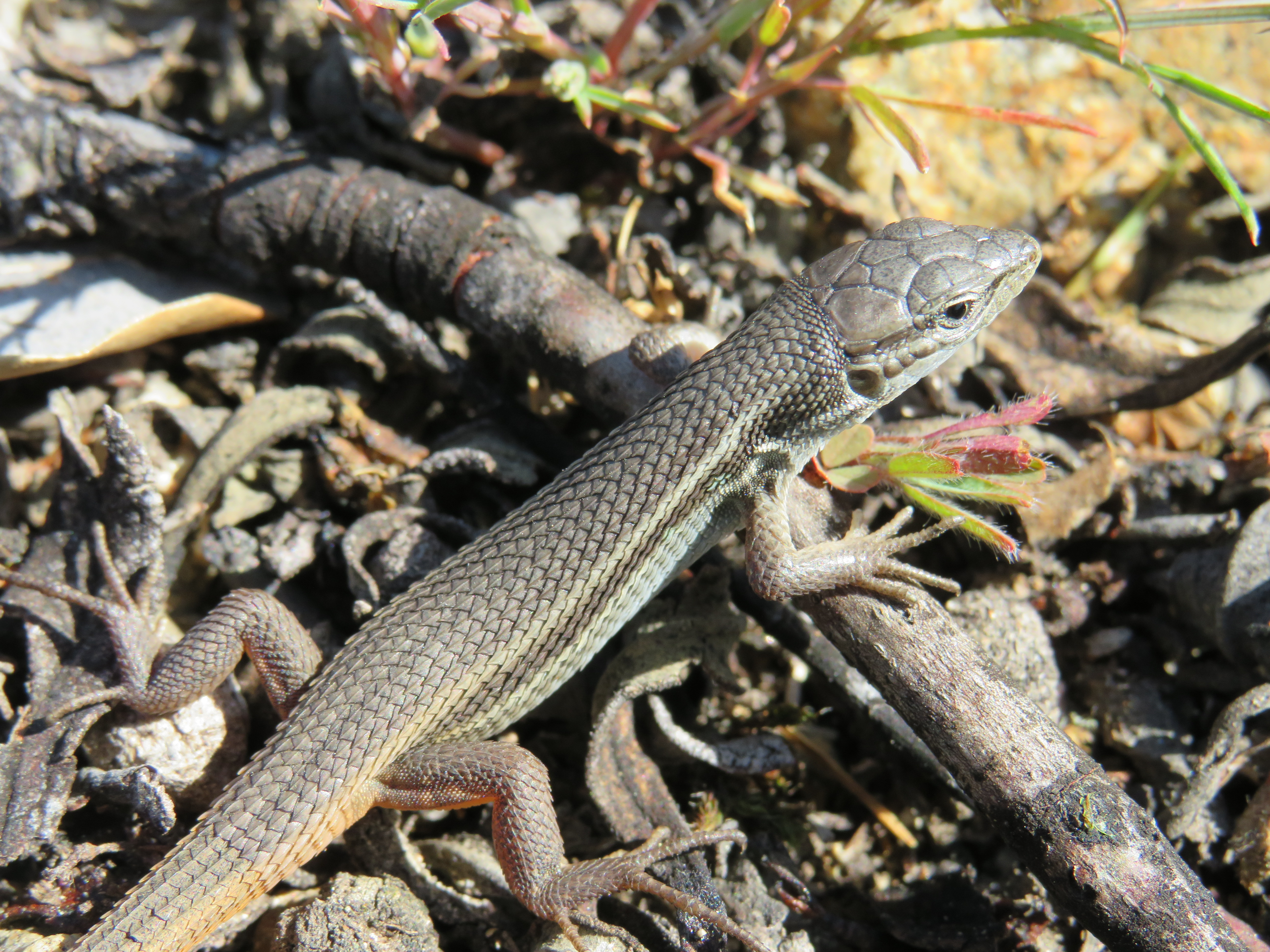 Psammodromus algirus (large psammodromus) in Manzanares el Real (Community of Madrid, Spain).